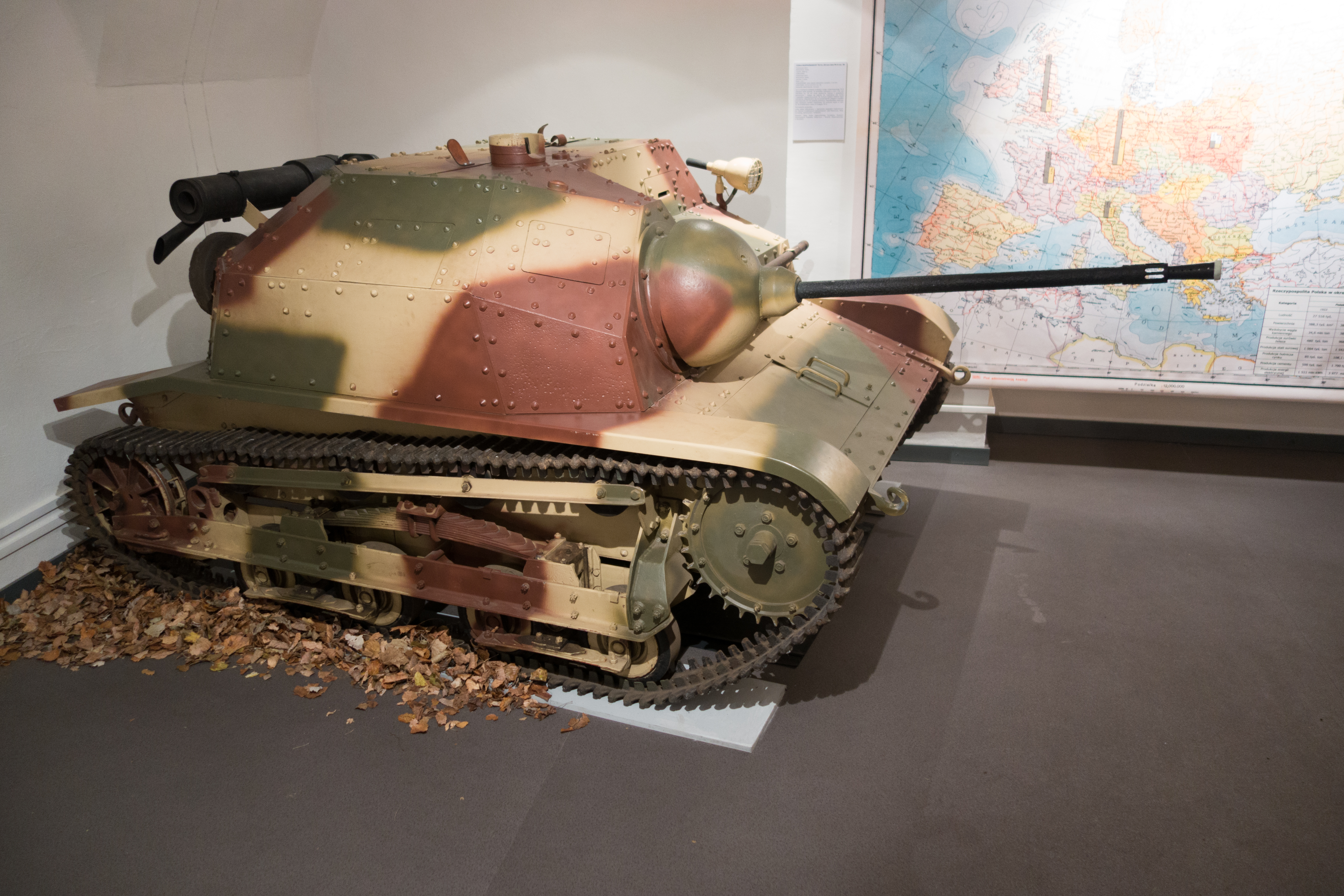 Poland 2012